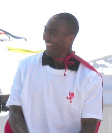 Welsh British sprinter and hurdling athlete Colin Jackson.